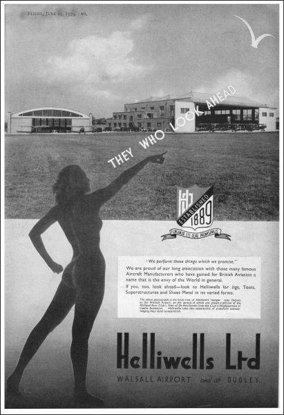 An advert for Helliewells, showing Walsall Airport.